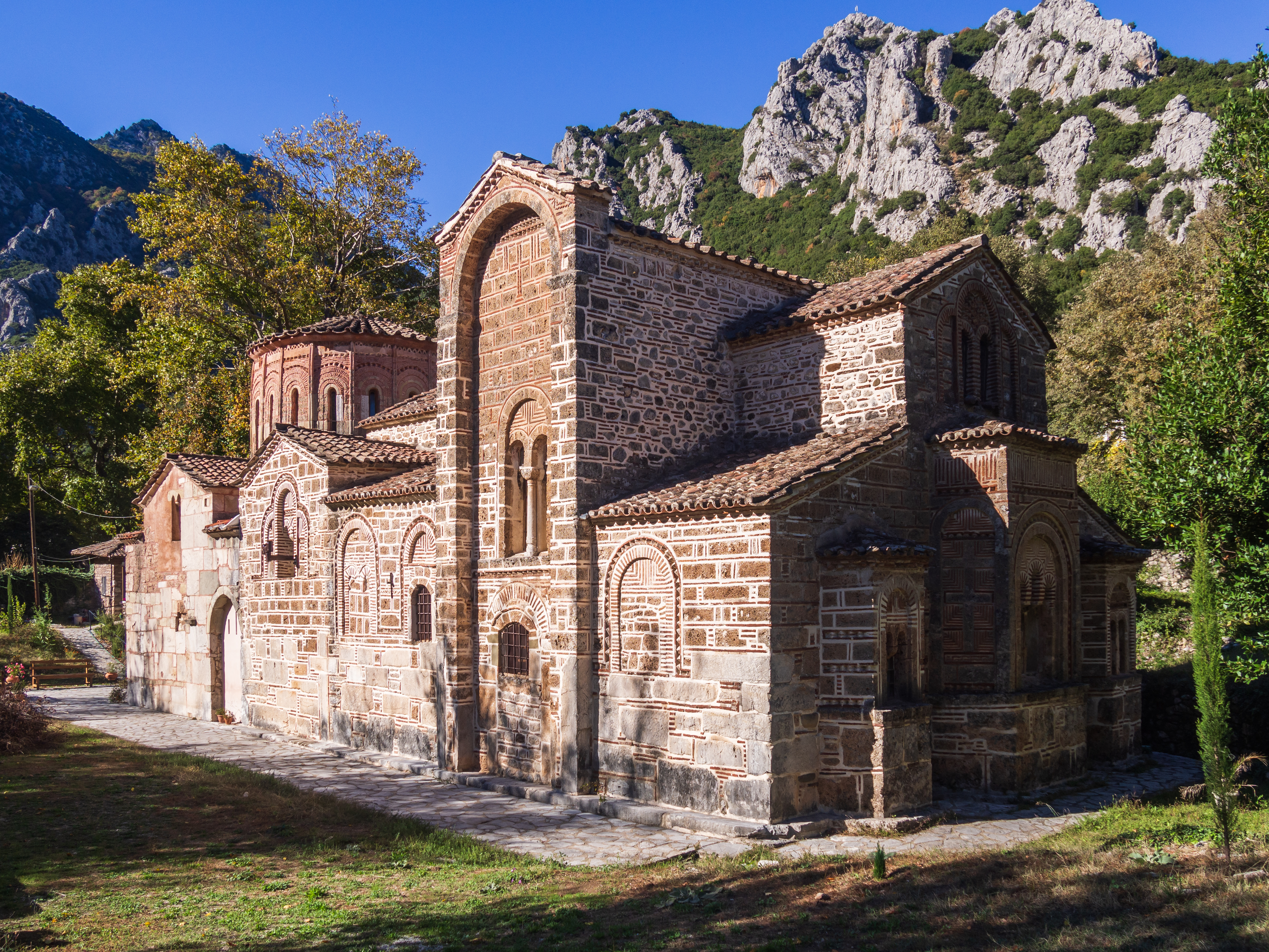 The byzantine church of Porta-Panagia, Pyli.